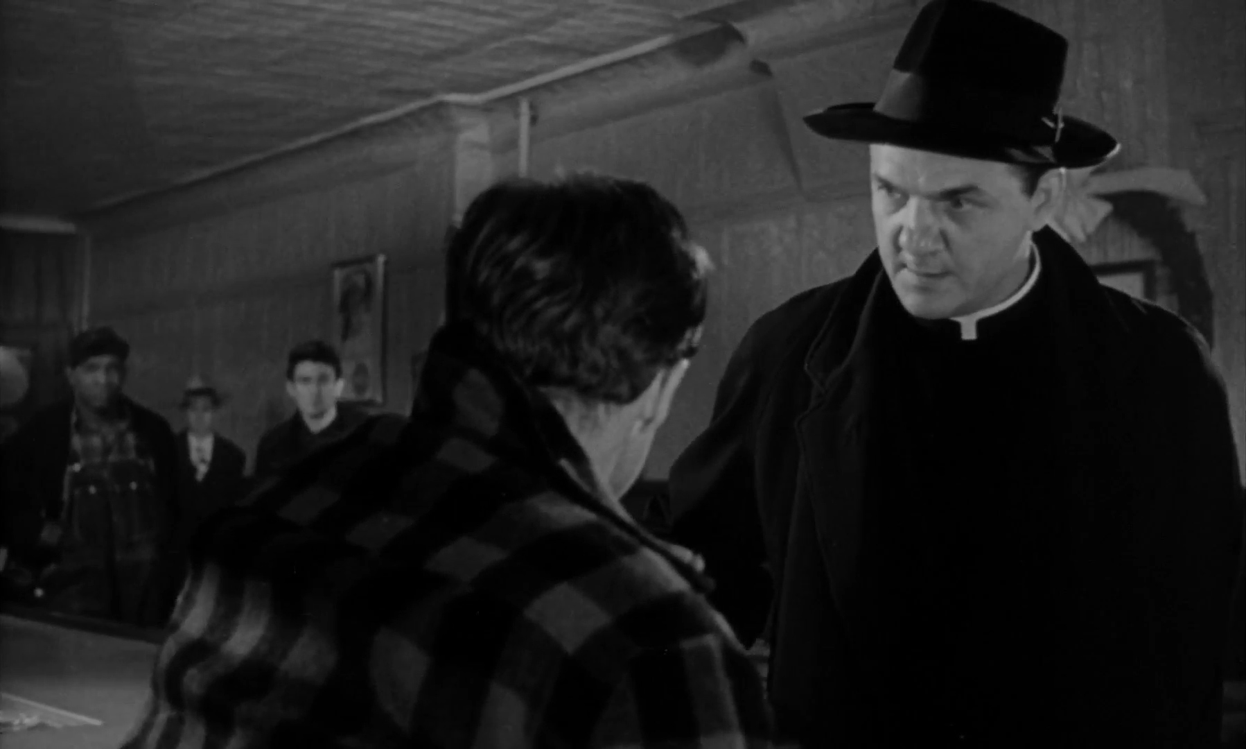 Marlon Brando and Karl Malden in a screenshot from the trailer for the film On the Waterfront.